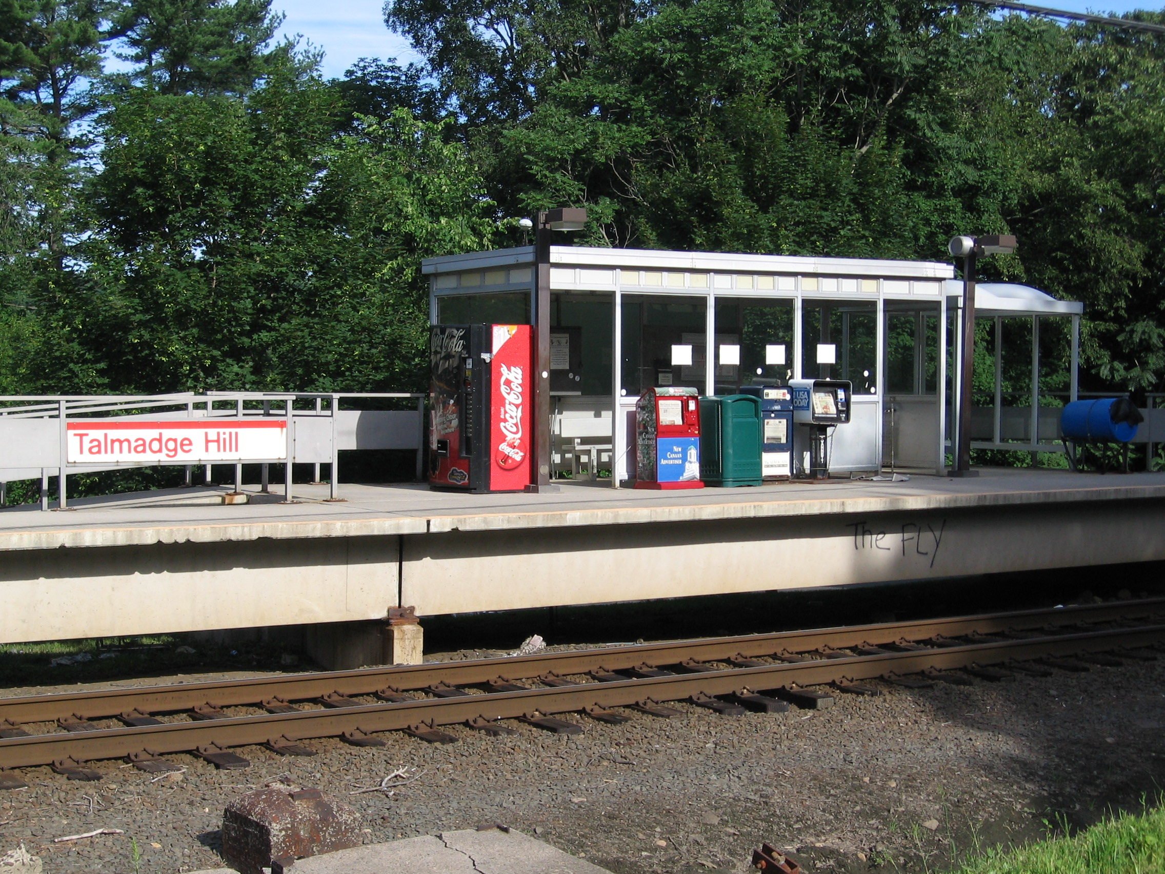 Shelter, Talmadge Hill in New Canaan